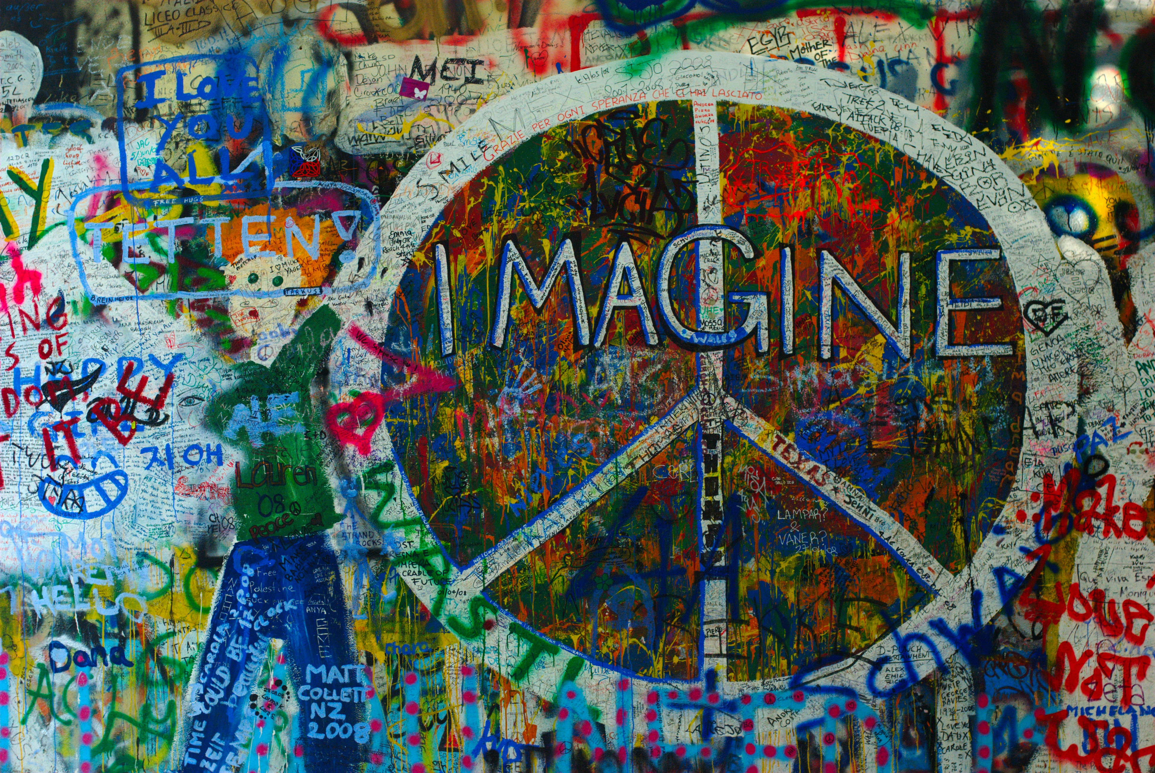 Lennon wall, Velkoprevorske namesti, Prague, Czech Republic